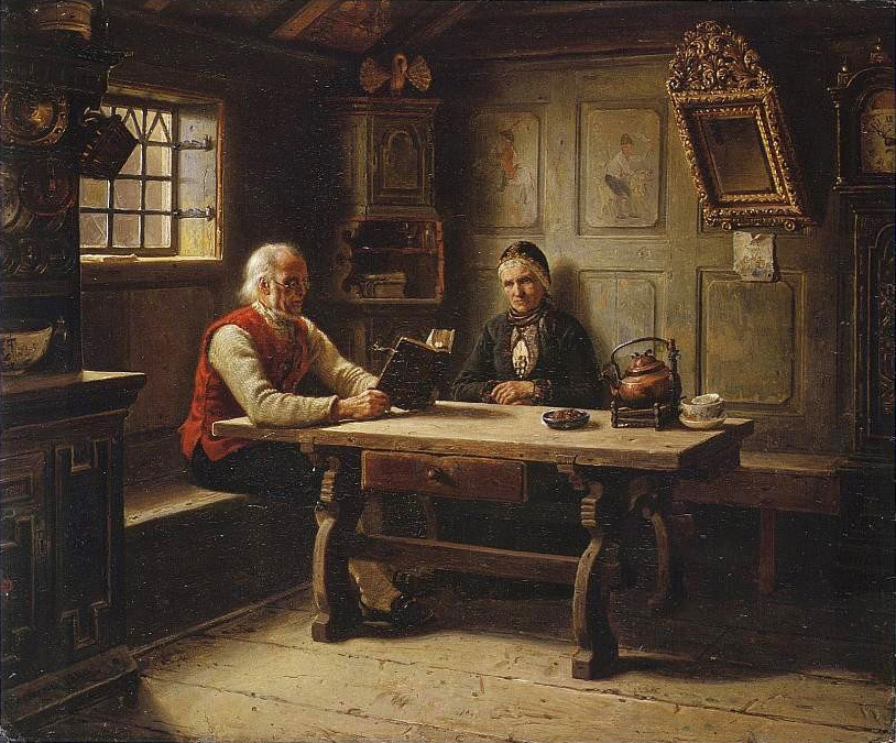 Adolph Tidemand The lonely elders, 1849Norsk bokmål: Adolph Tidemand De ensomme gamle, 1849